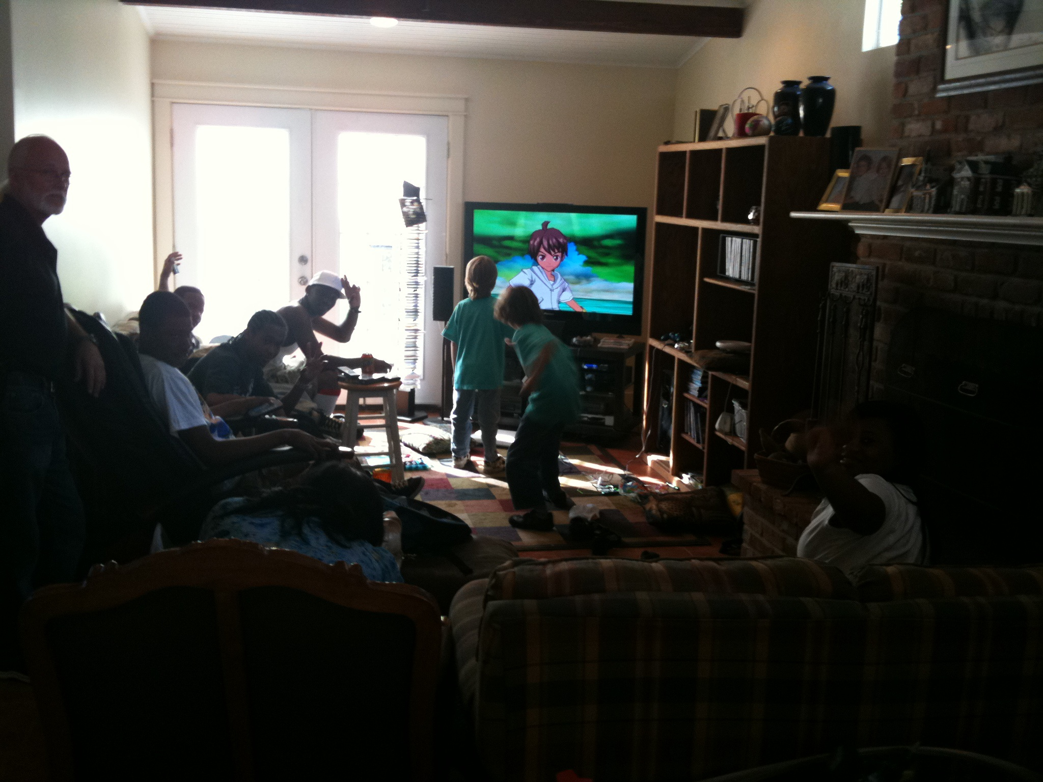 APEX teen at the Fitzpatrick's house for Pizza and games.